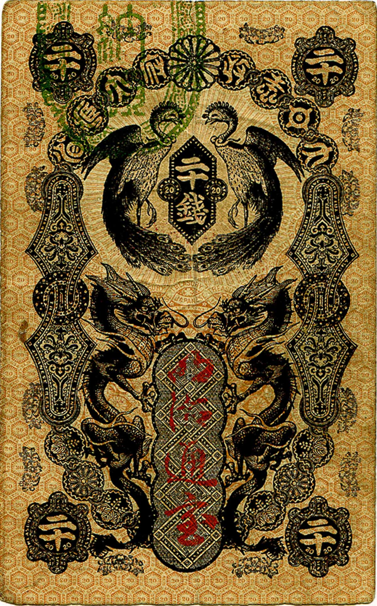 20 sen du Japon, 1872